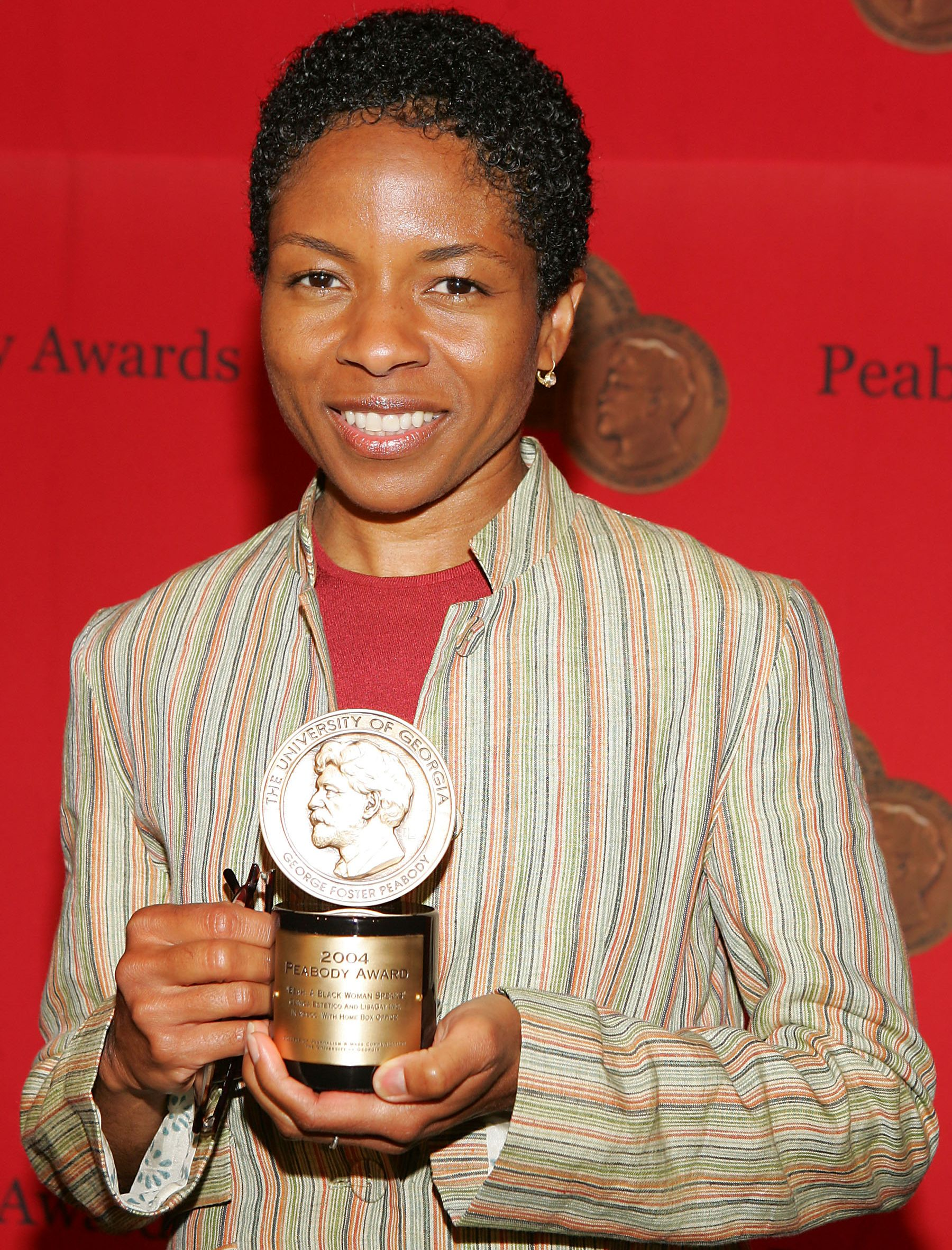 64th Annual Peabody Awards Luncheon Waldorf=Astoria Hotel New York, NY USA May 16, 2005